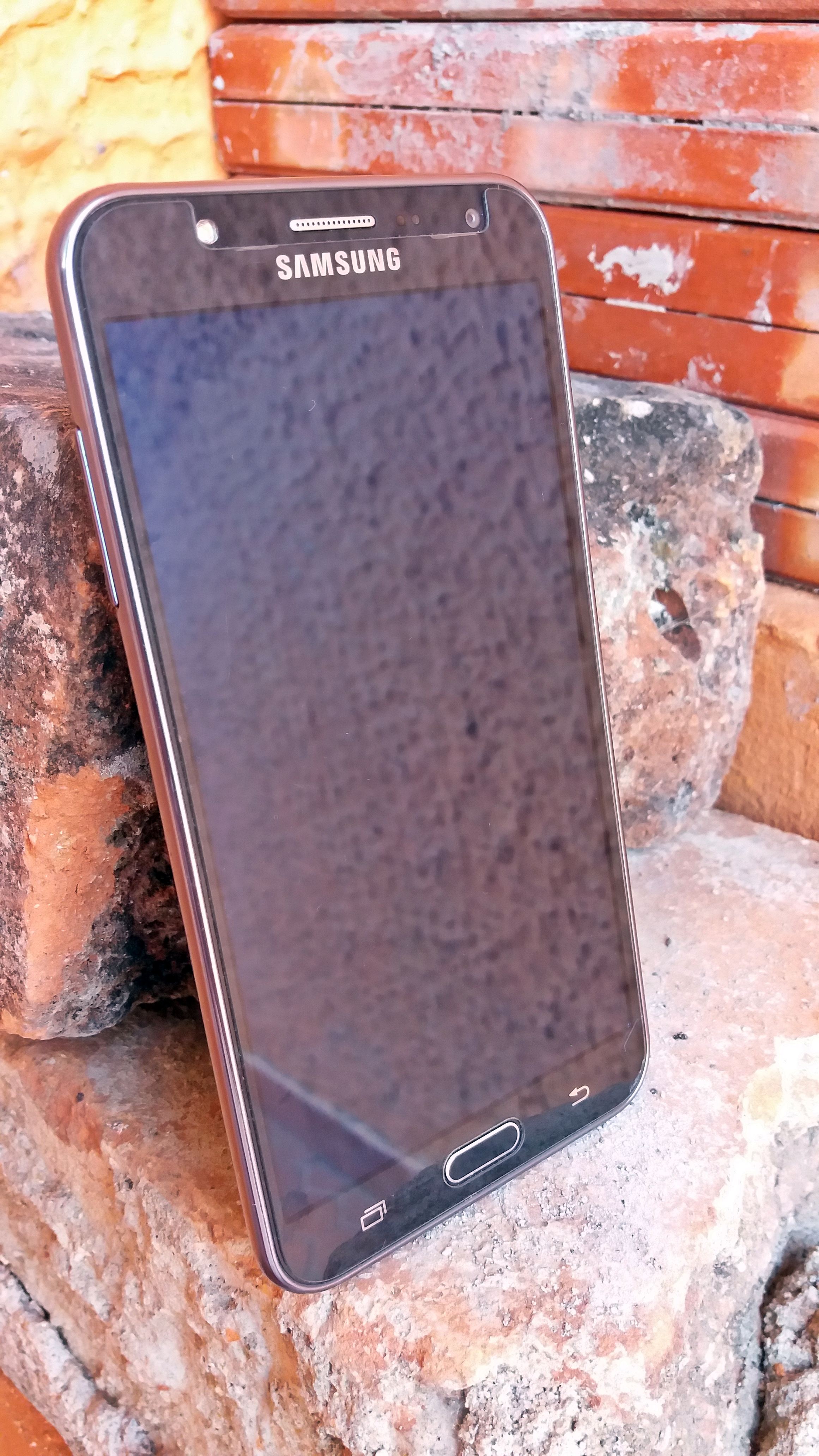 A Samsung Galaxy J7 SM-J700M/DS Colombian front view showing your screen (covered with a screen protector), flash for selfies, front camera, buttons and your Samsung logo